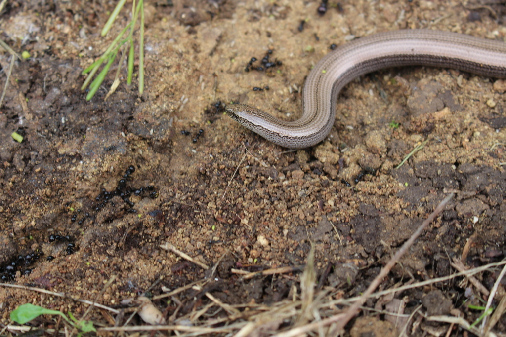 Anguis veronensis by Fabien Piednoir